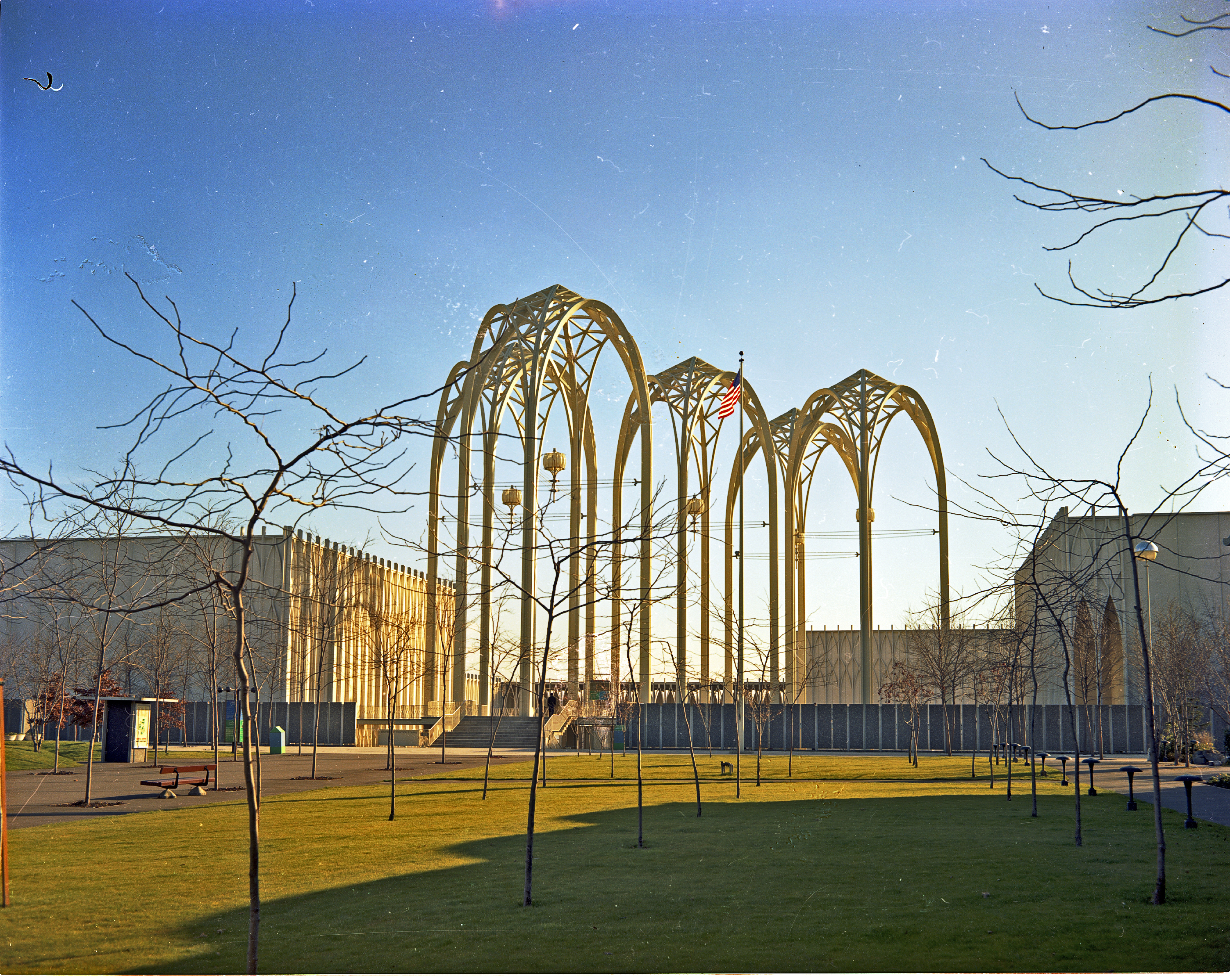 Pacific Science Center, Seattle Center, Seattle, Washington, 1968. Item 78797, City Light Photographic Negatives (Record Series 1204-01), Seattle Municipal Archives.